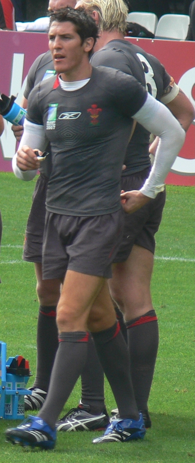 James Hook preparing for a Rugby World Cup match